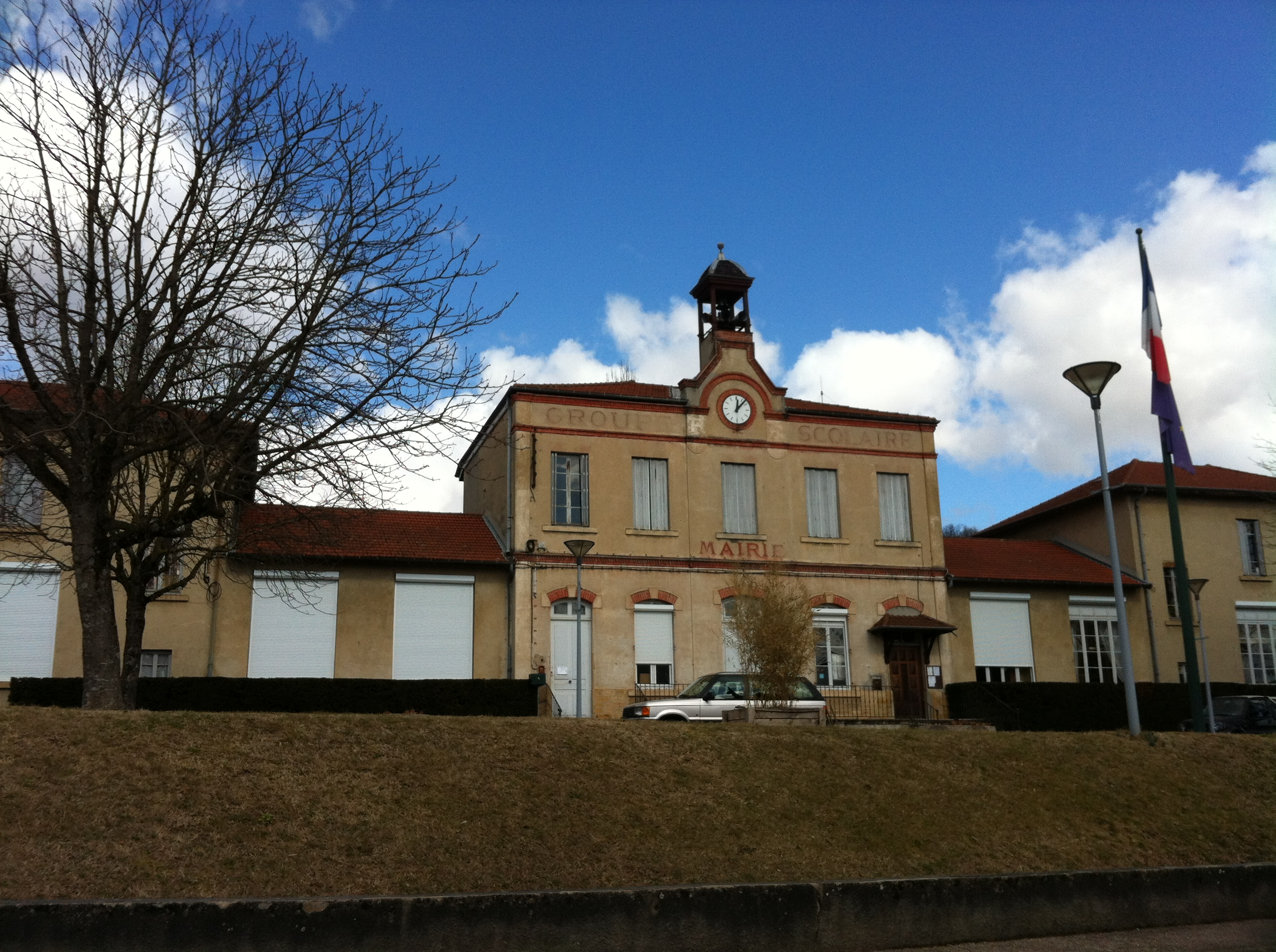 Town hall of Beynost.